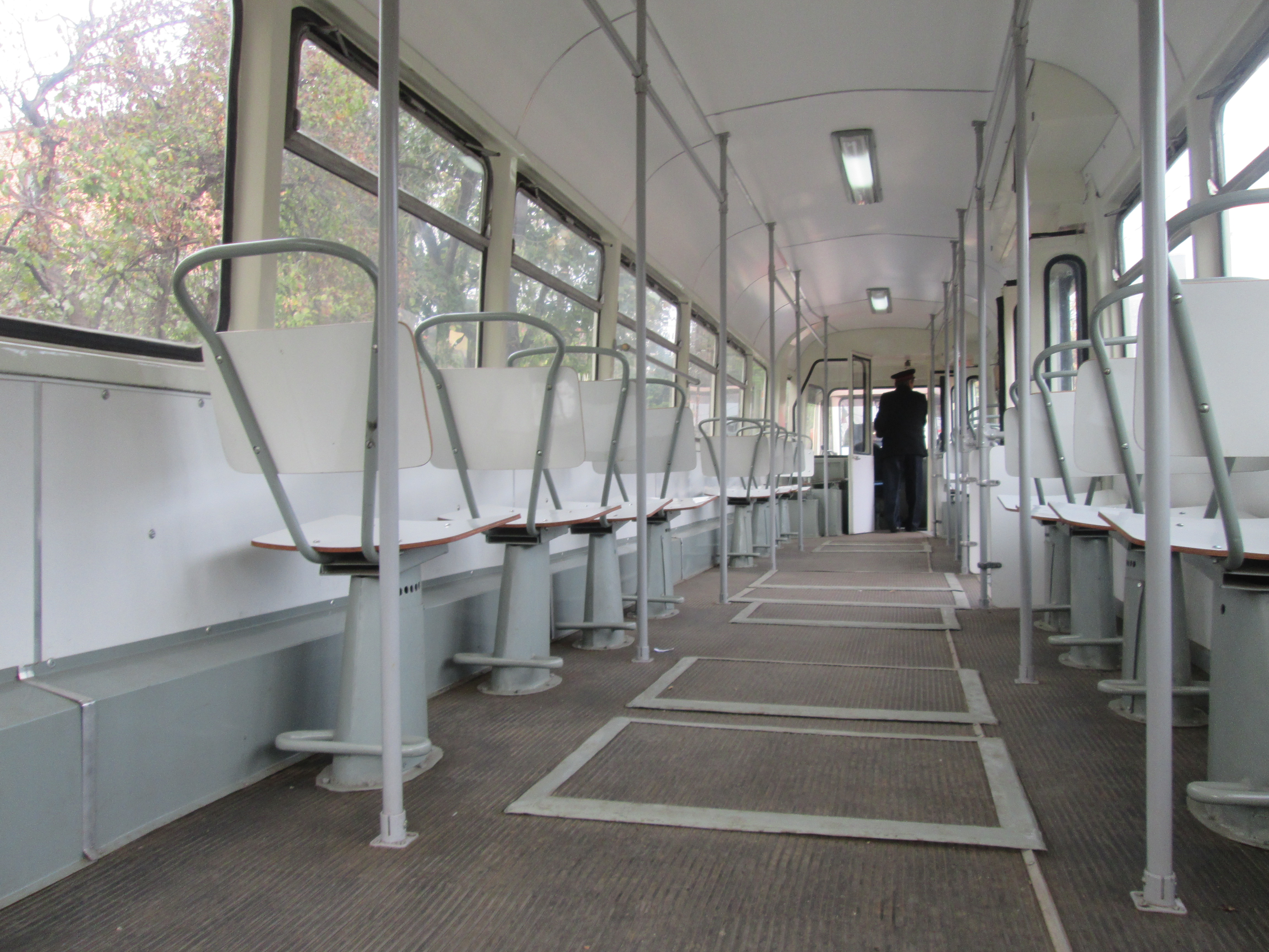 Interior of the EP/V3A tram, number 6001